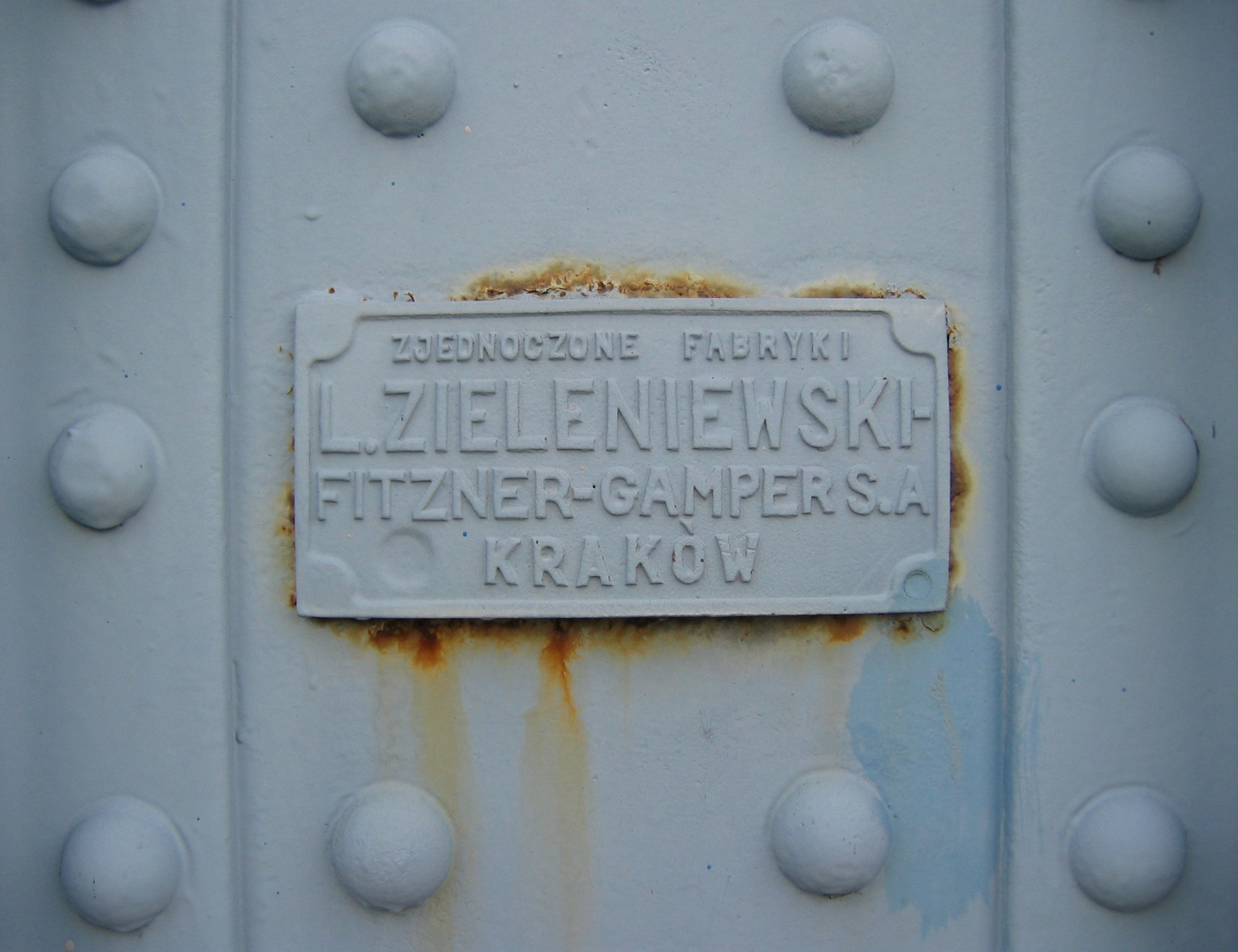 The name plate of the L. Zieleniewski-Fitzner-Gamper brigde (of Schindler's List fame) in Kraków, Poland